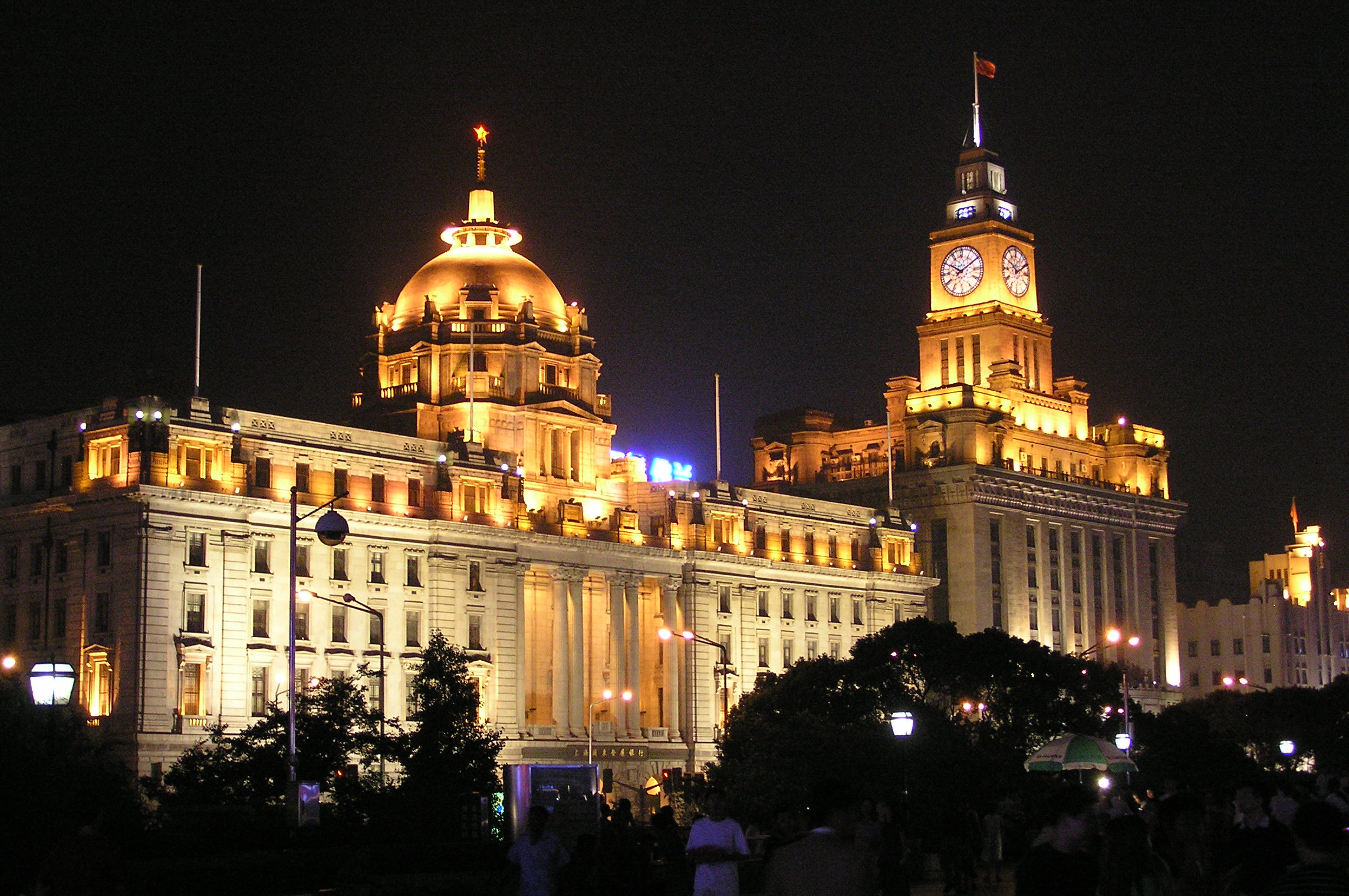 The Bund at night. Hong Kong and Shanghai Bank and Customs House (Shanghai, China) Author: Miguel A. Monjas Date: 07/28, 2005